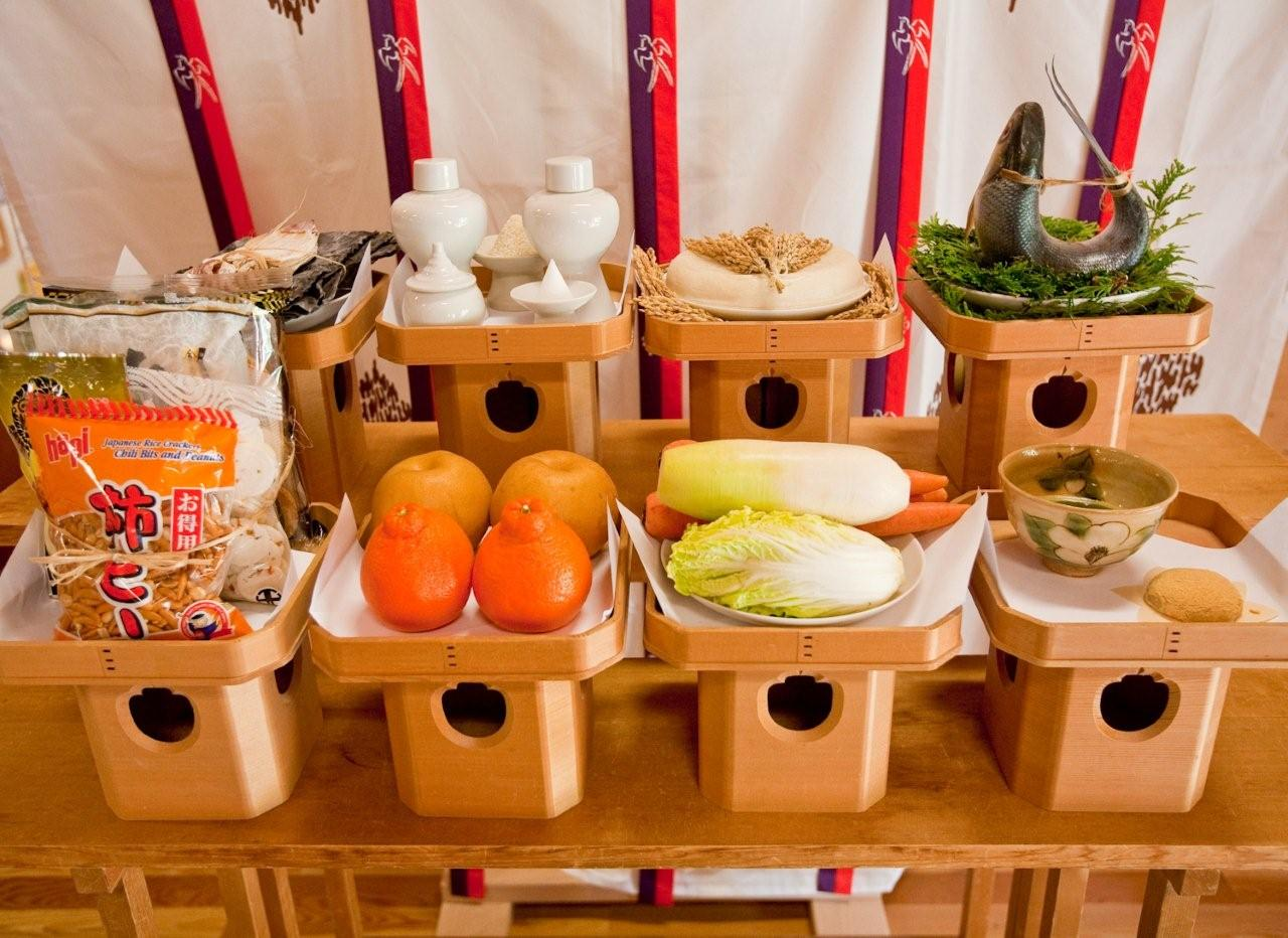 Shinsen offerings - Tsubaki Grand Shrine of America - A Branch Shrine of Tsubaki Jinja Japan.